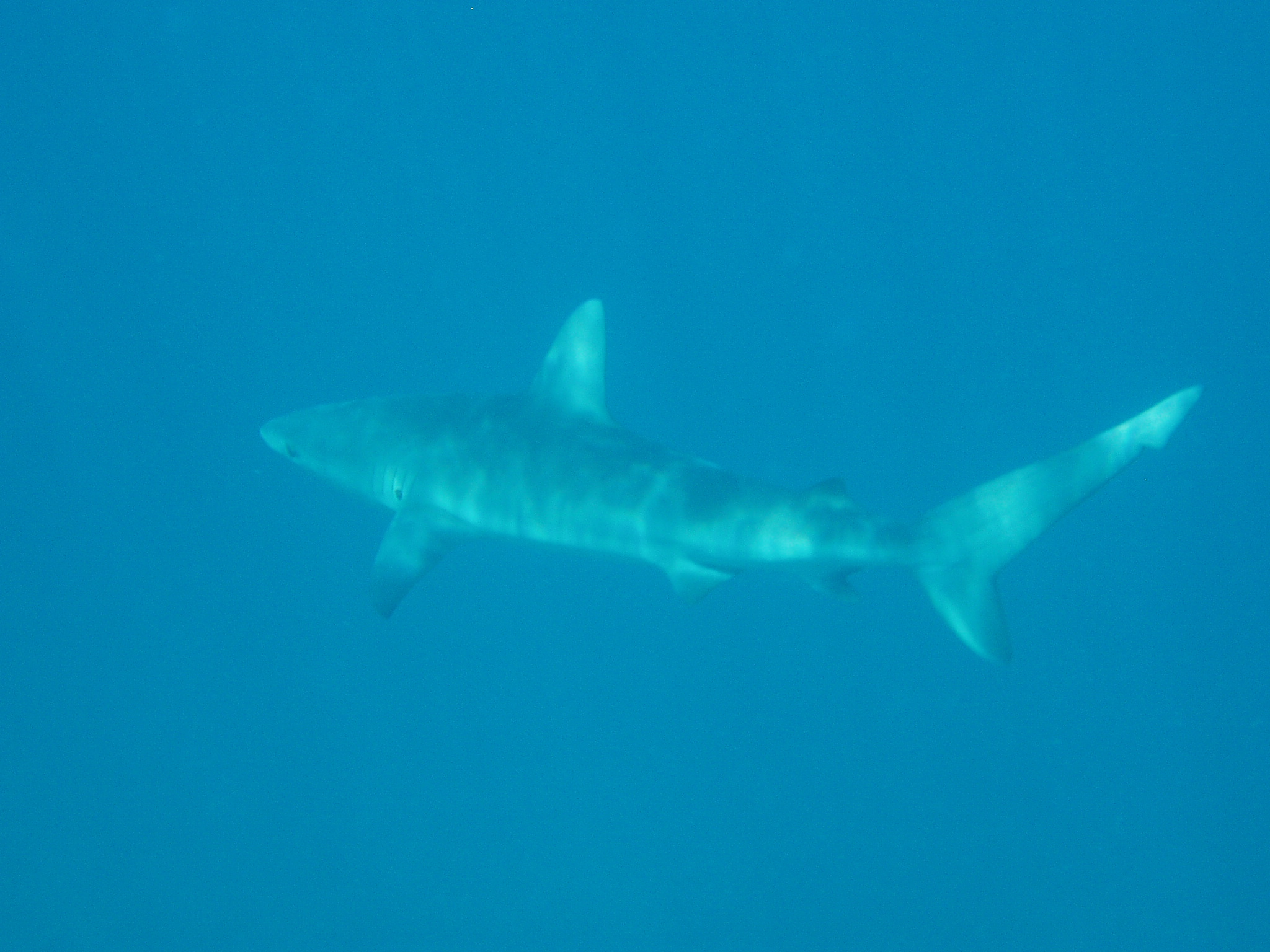 Galapagos shark (Carcharhinus galapagensis) in the Kure Atoll State Wildlife Refuge in the Northwestern Hawaiian Islands Marine National Monument.